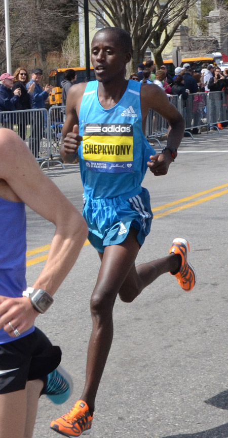 Franklin Chepkwony in Wellesley near halfway of 2014 Boston Marathon